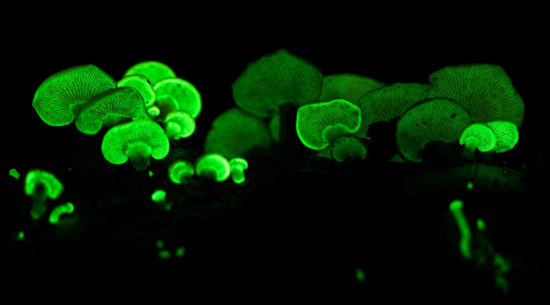 The saprobe Panellus Stipticus displaying bioluminescence.